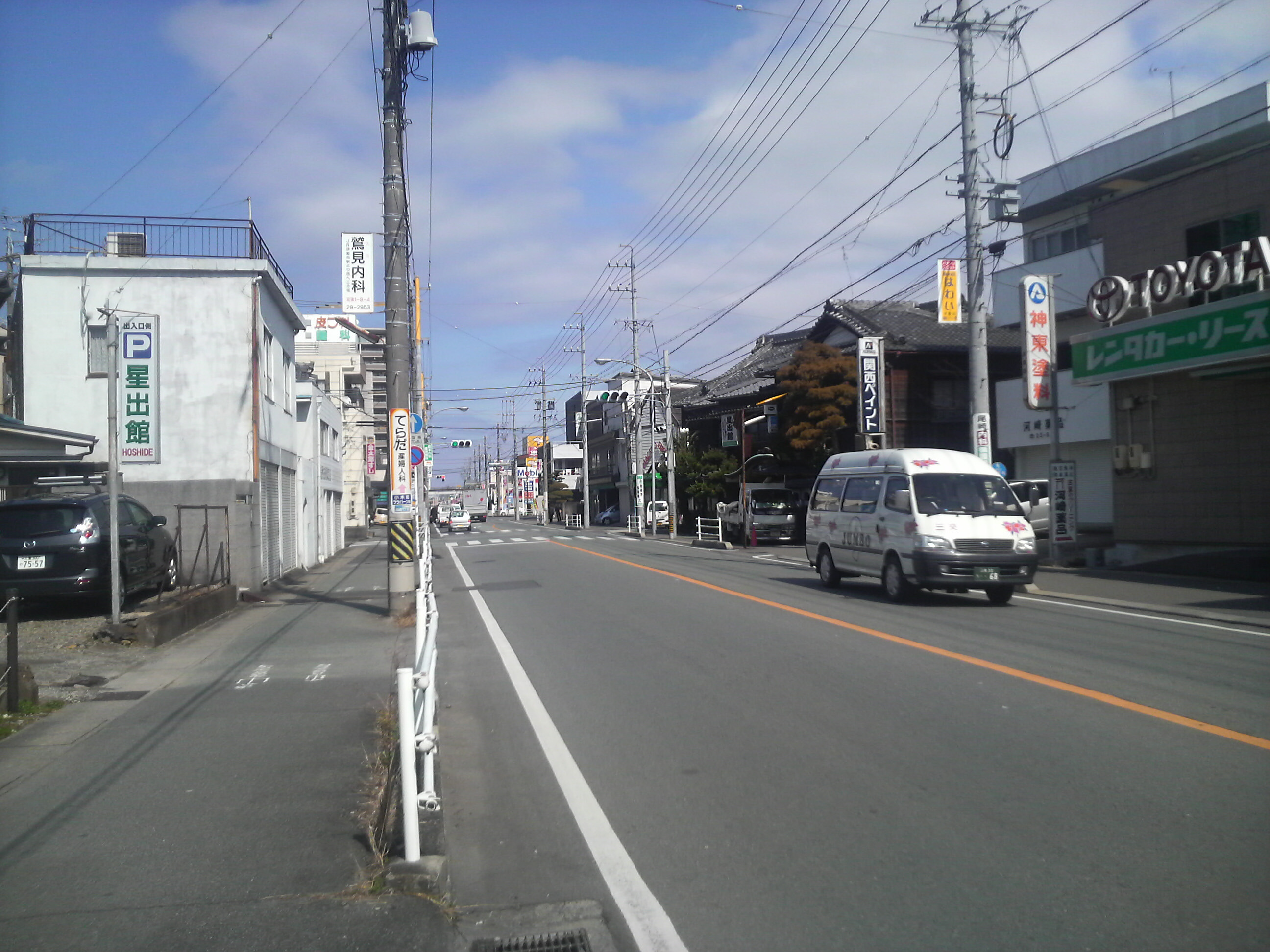 The Mie Prefectural Road Route 201 (Hachiken-doro) in Ise City